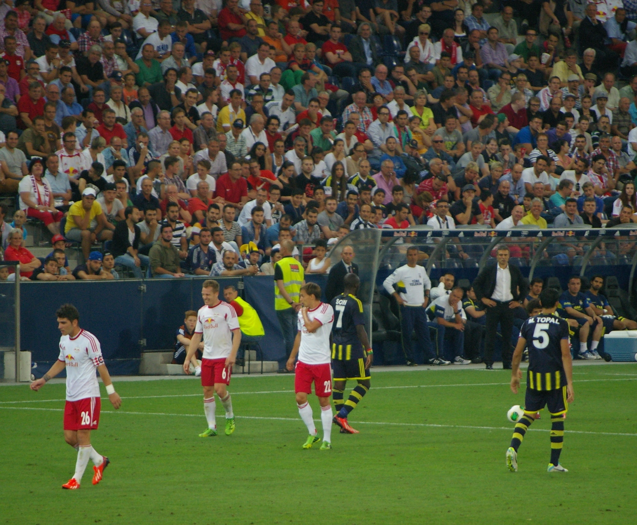 CL Qualifing match